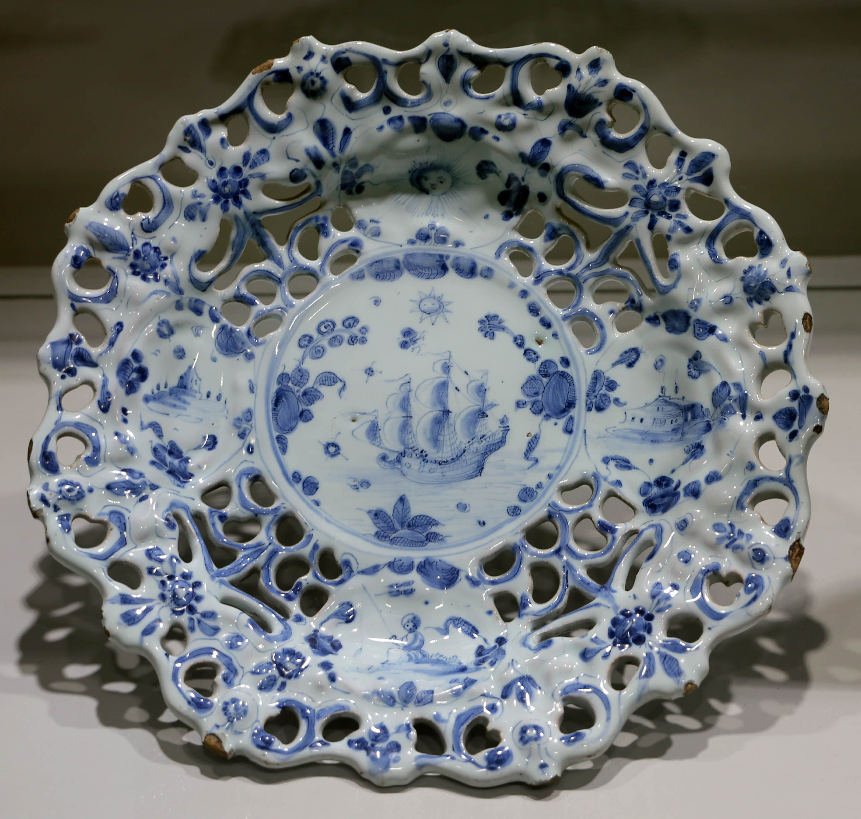 Museo della ceramica di Savona